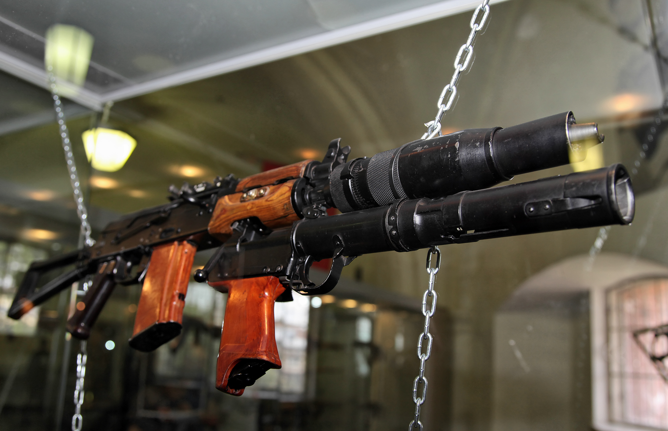 6S1 Kanareyka system